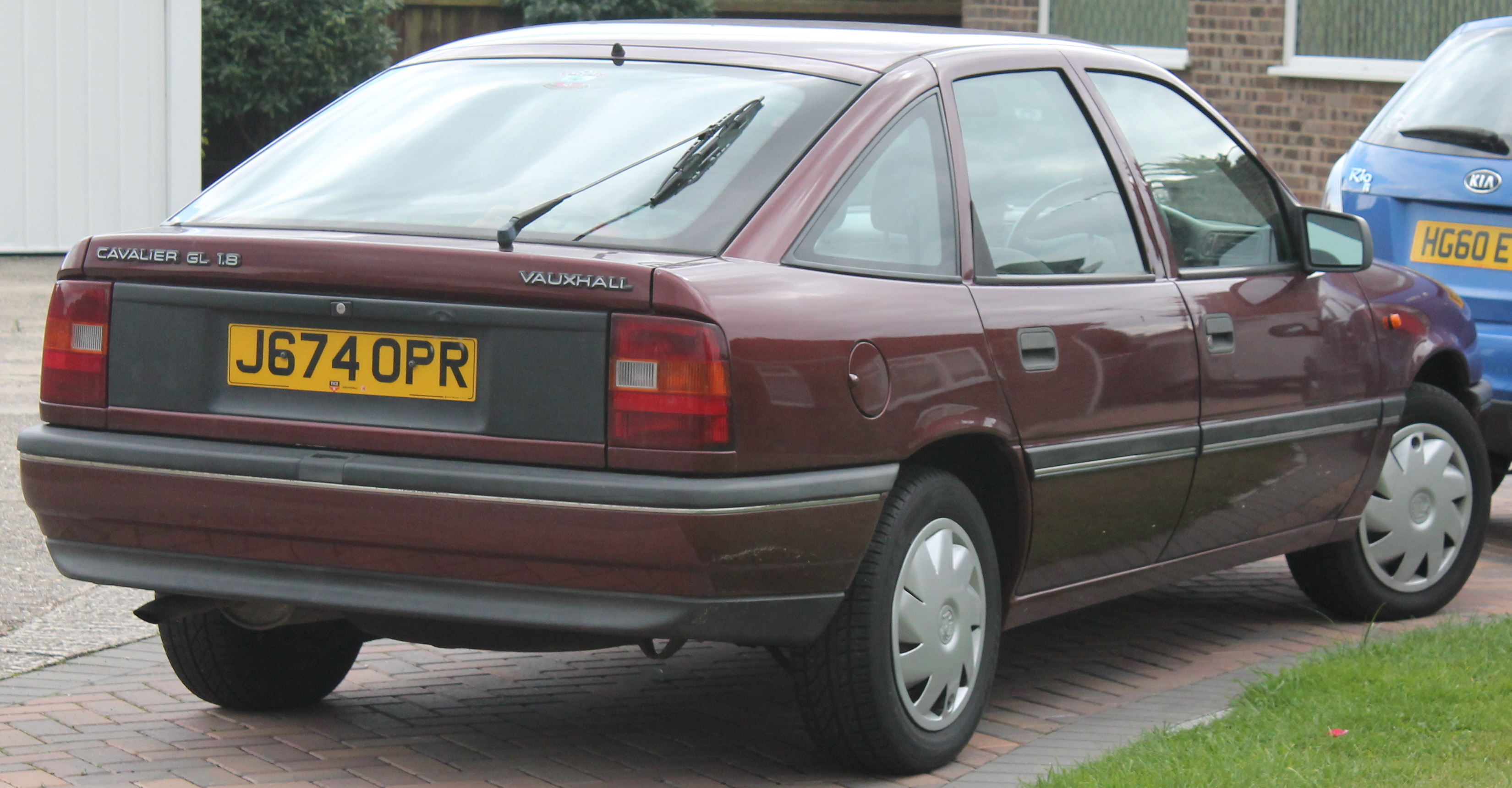 I think this is the pre-facelift Cavalier. Unfortunately it was parked on such a position on this drive that I couldn't get a picture without trespassing! Much harder to see pre-facelift Cavaliers these days. This is the 1.8 GL model. These come up as only 5 being registered in Britain! The vehicle details for J674 OPR are: Date of Liability 01 02 2014 Date of First Registration 03 08 1991 Year of Manufacture 1991 Cylinder Capacity (cc) 1796cc CO₂ Emissions Not Available Fuel Type PETROL Export Marker N Vehicle Status Licence Not Due Vehicle Colour RED Vehicle Type Approval Not Available